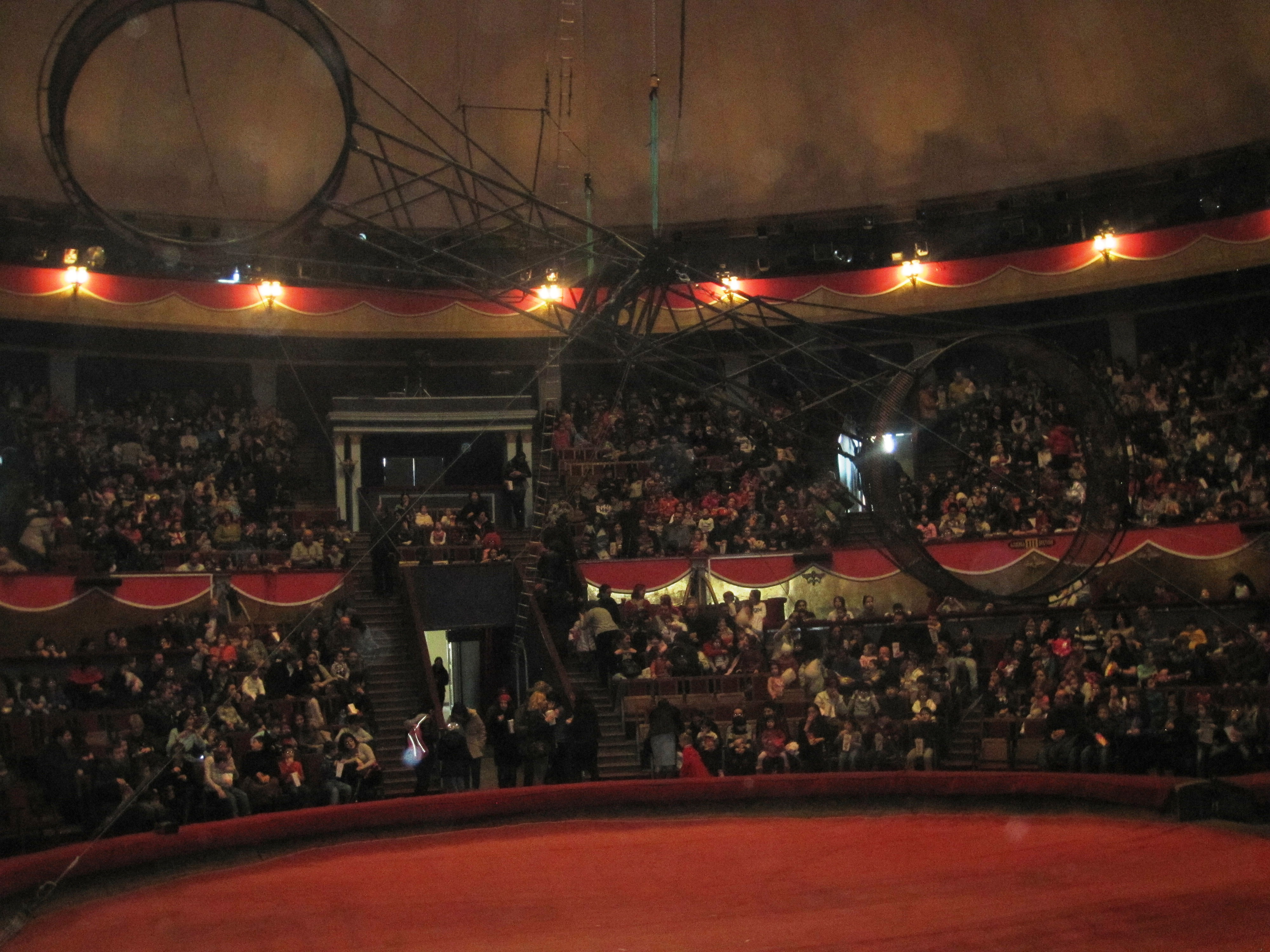 Tbilisi Circus arena